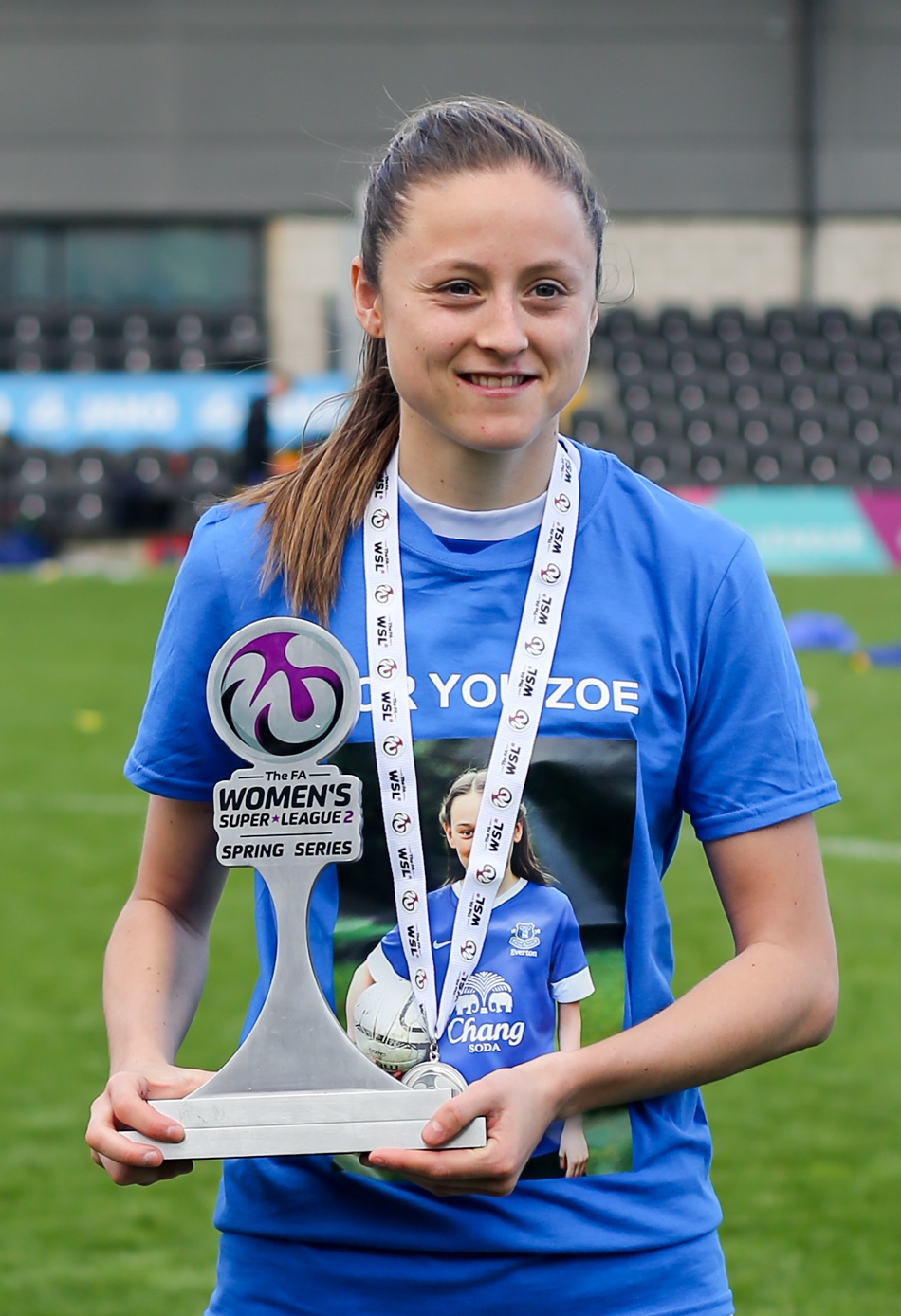 London Bees v Everton LFC, 20 May 2017